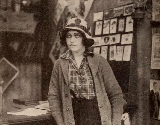 Still from the American drama film The Penny Philanthropist (1917) with Peggy O'Neil, on page 28 of the September 15, 1917 Exhibitors Herald.